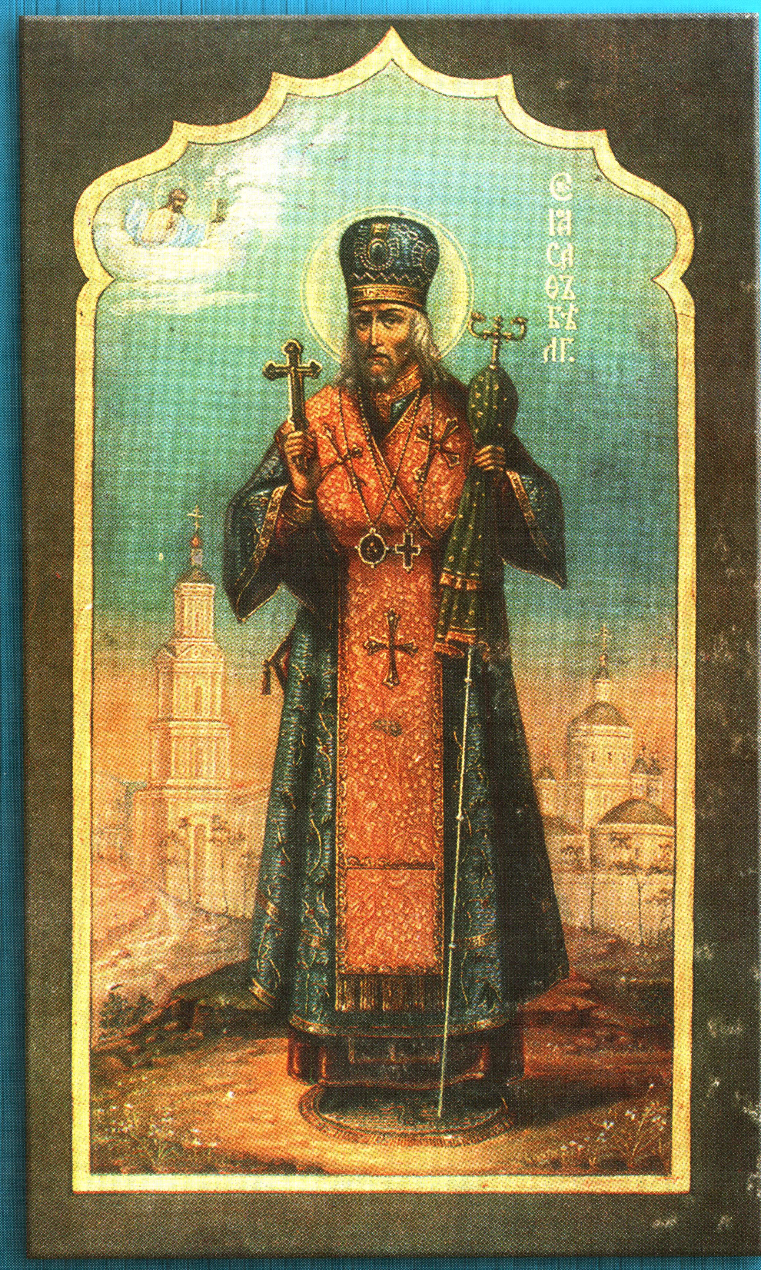 Icon of Hierarch Ioasaph, bishop of Belgorod